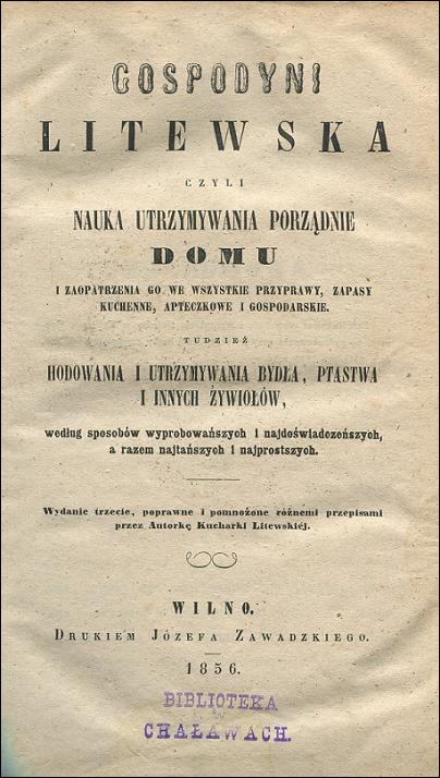 Anna Ciundziewicka who wrote Kulinaria.Zawadzka.Gospodyni lived 1803-1850